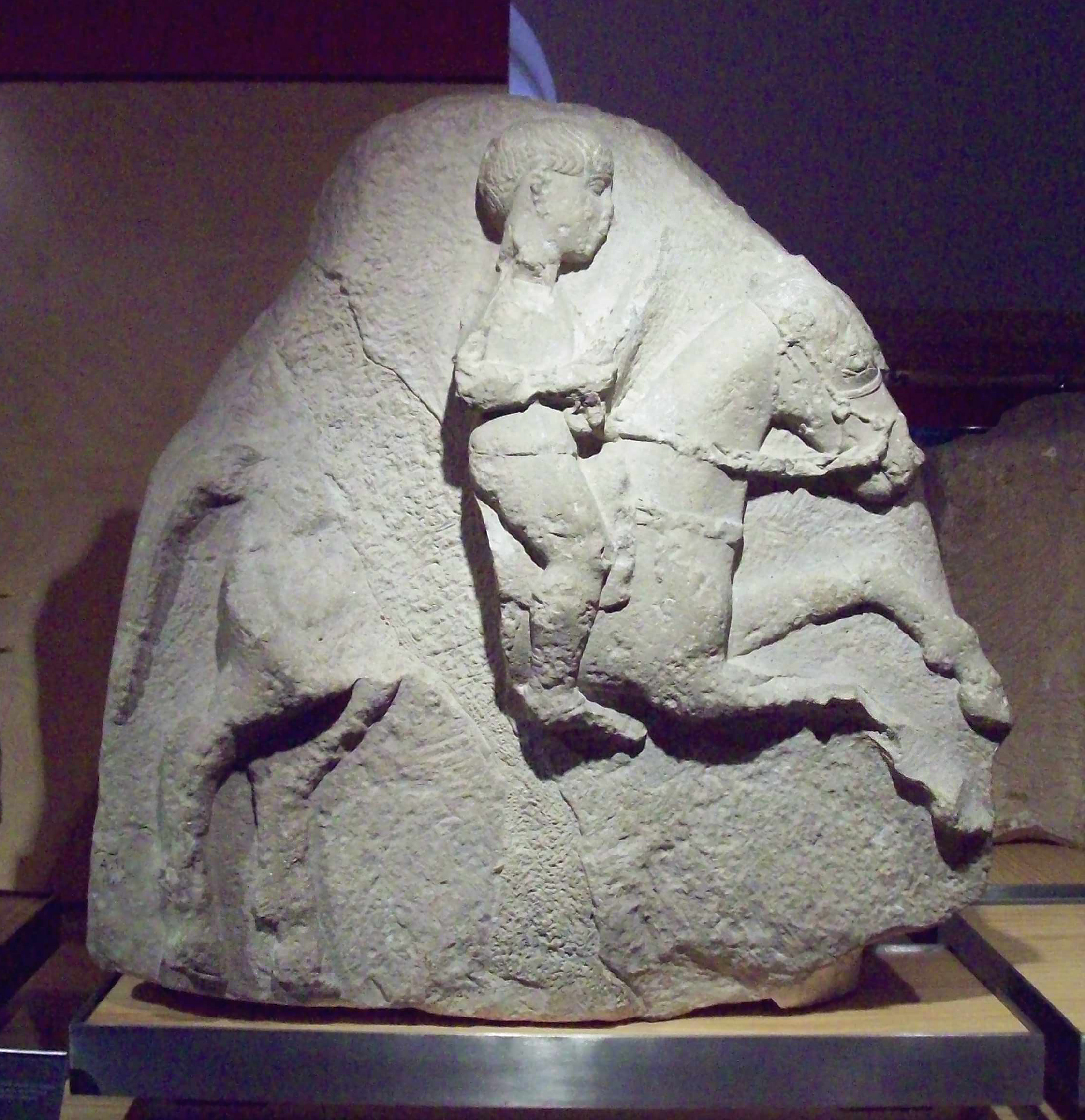 Ashlar representing an Iberian rider wearing a short tunic and taking up an antenna-hilted straight sword and the reins of a harnessed horse. It's part of the Group A of the Sculptures of Osuna.